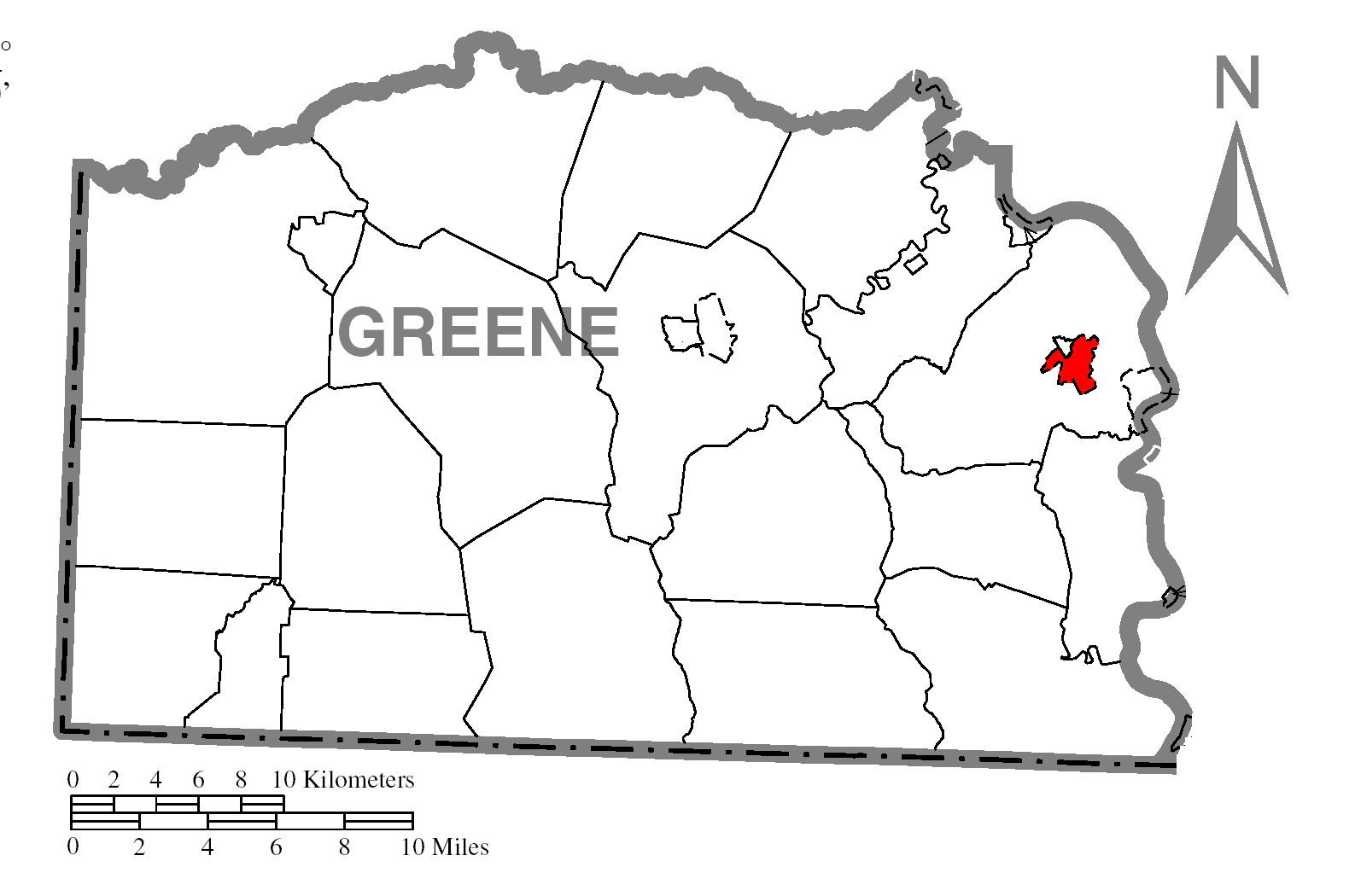 Map of Greene County higlighting Fairdale.